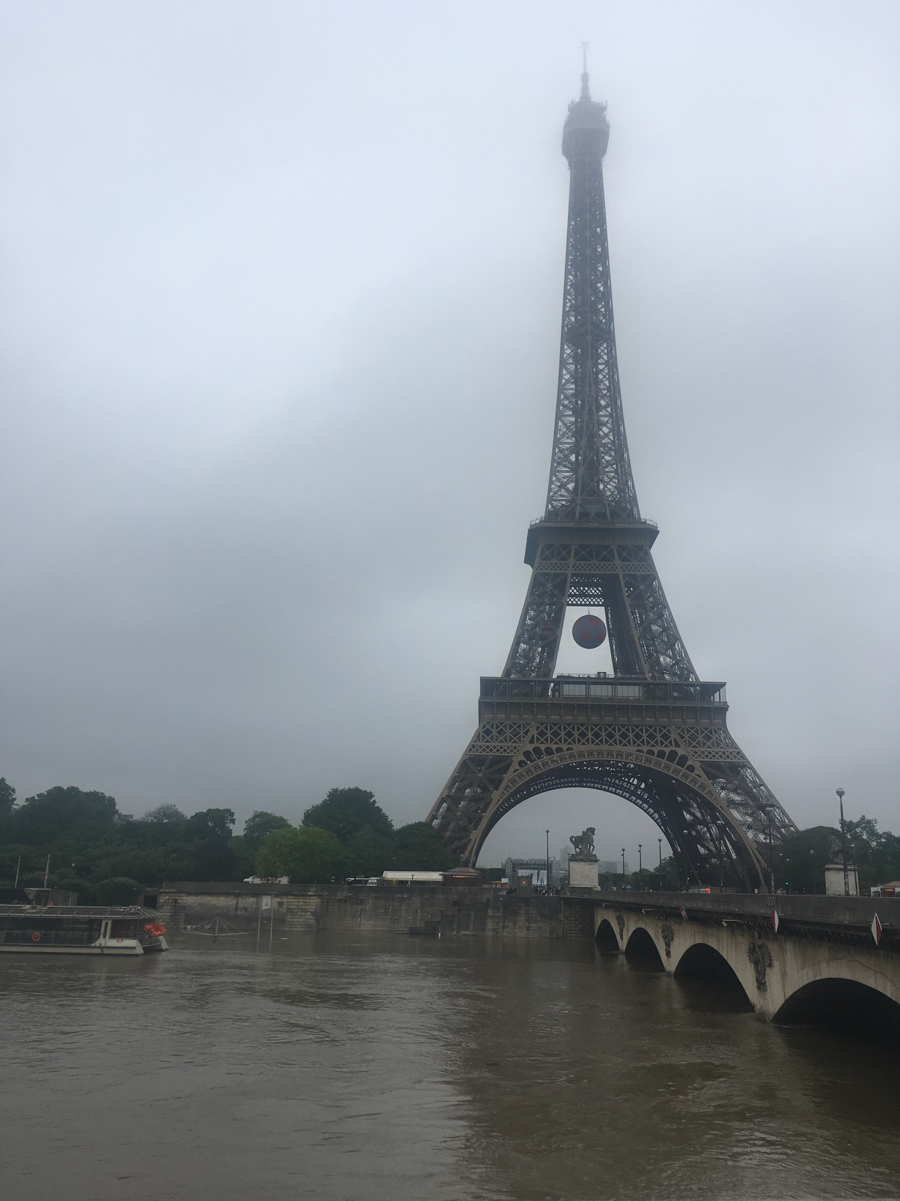 Eiffel tower on June 4th 2016 following the rise of the Seine's waters